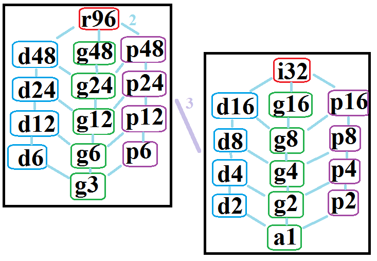 tetracontaoctagon symmetries